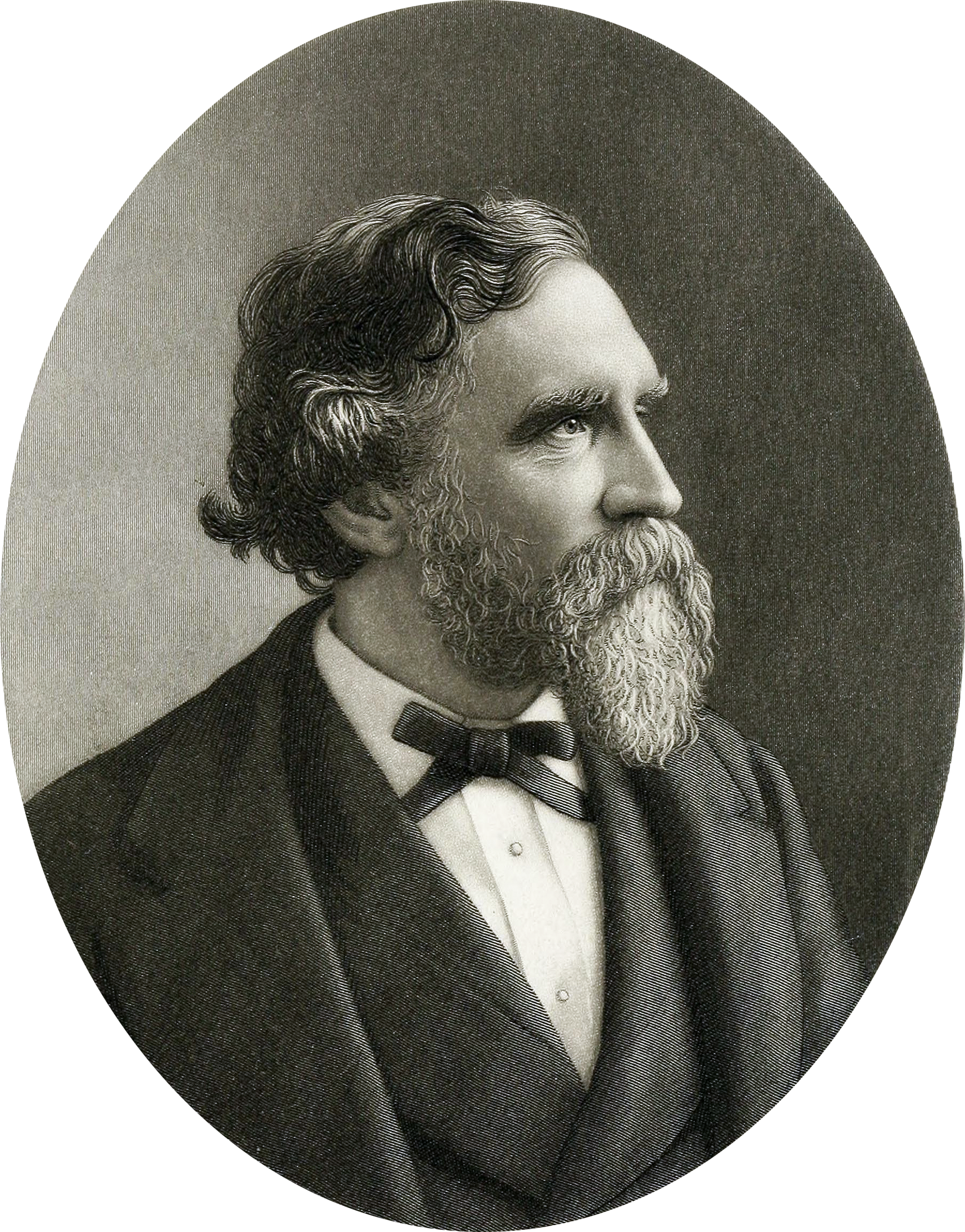 Portrait of Liberal Republican and journalist Samuel Bowles of Massachusetts.